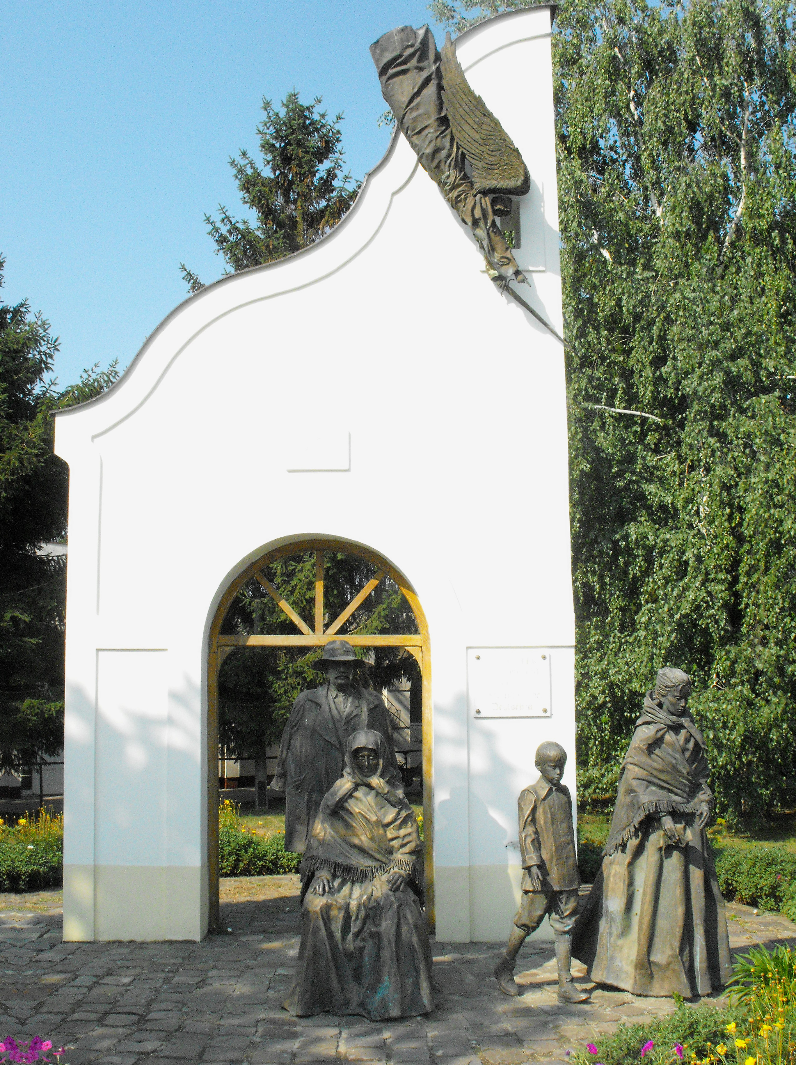 Monument in Elek, Hungary, commemorating the Germans living in Hungary and deported by force after the 2nd World War.